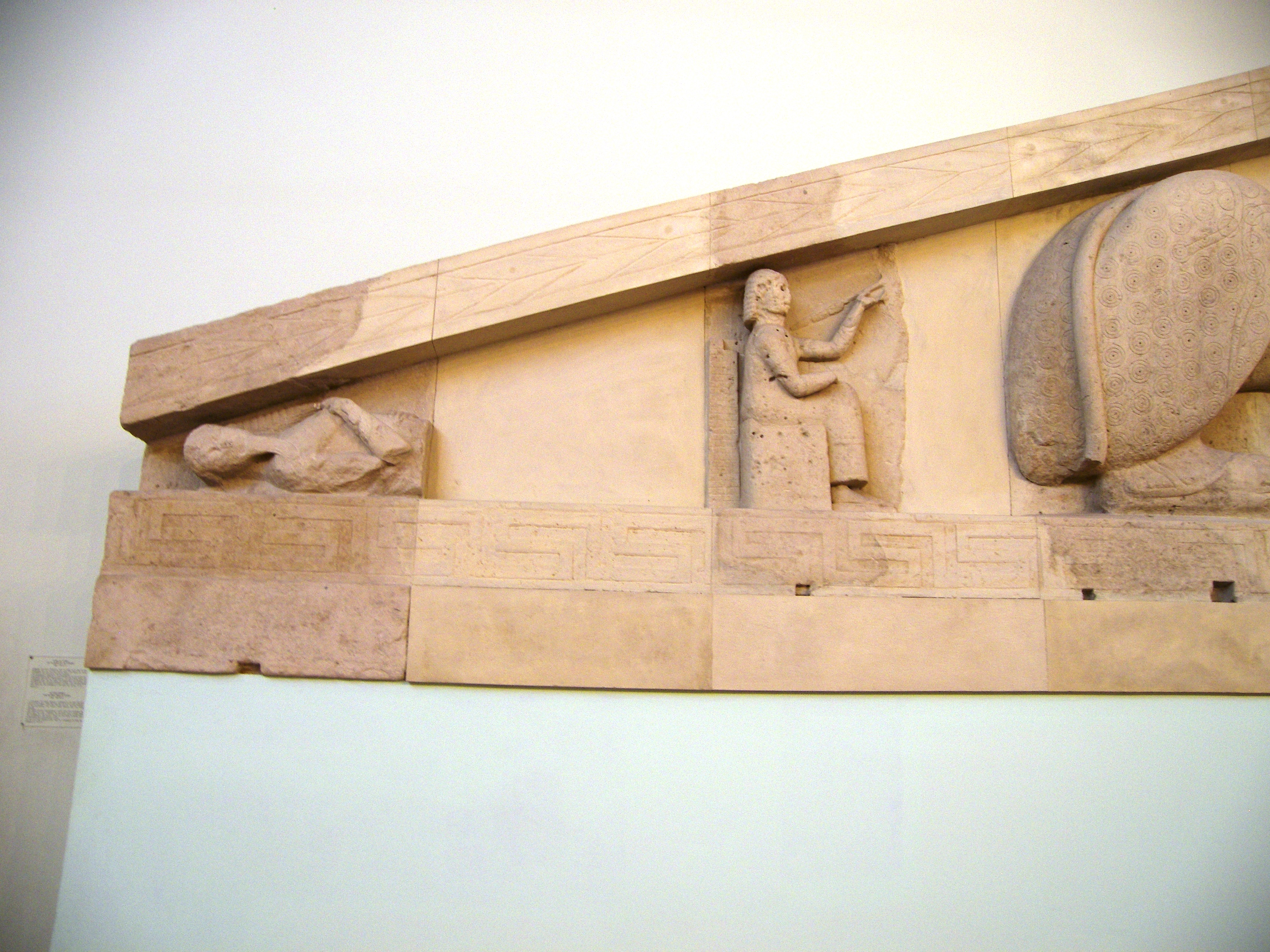 Please see filename